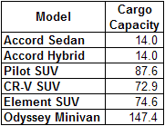 Part of a series of images to illustrate an article on the Analytic Hierarchy Process